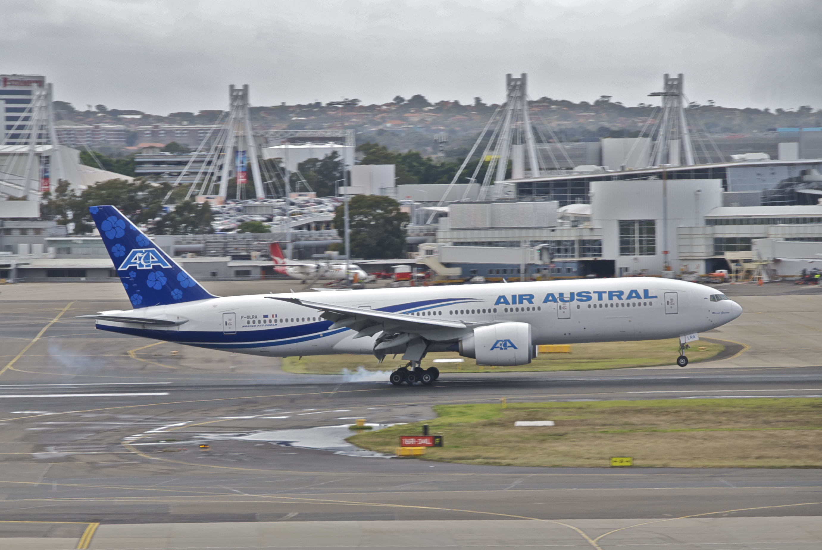 Air Austral Boeing 777-200LR; F-OLRA@SYD;31.07.2012/666em